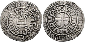 Germany, Berg. William, as Count (Graf). 1360-1380. AR Tournois (Weißpfenning) (24mm, 3.73 gm). Mülheim mint. Short cross Castle within border of lis. De Mey, Gros 222.